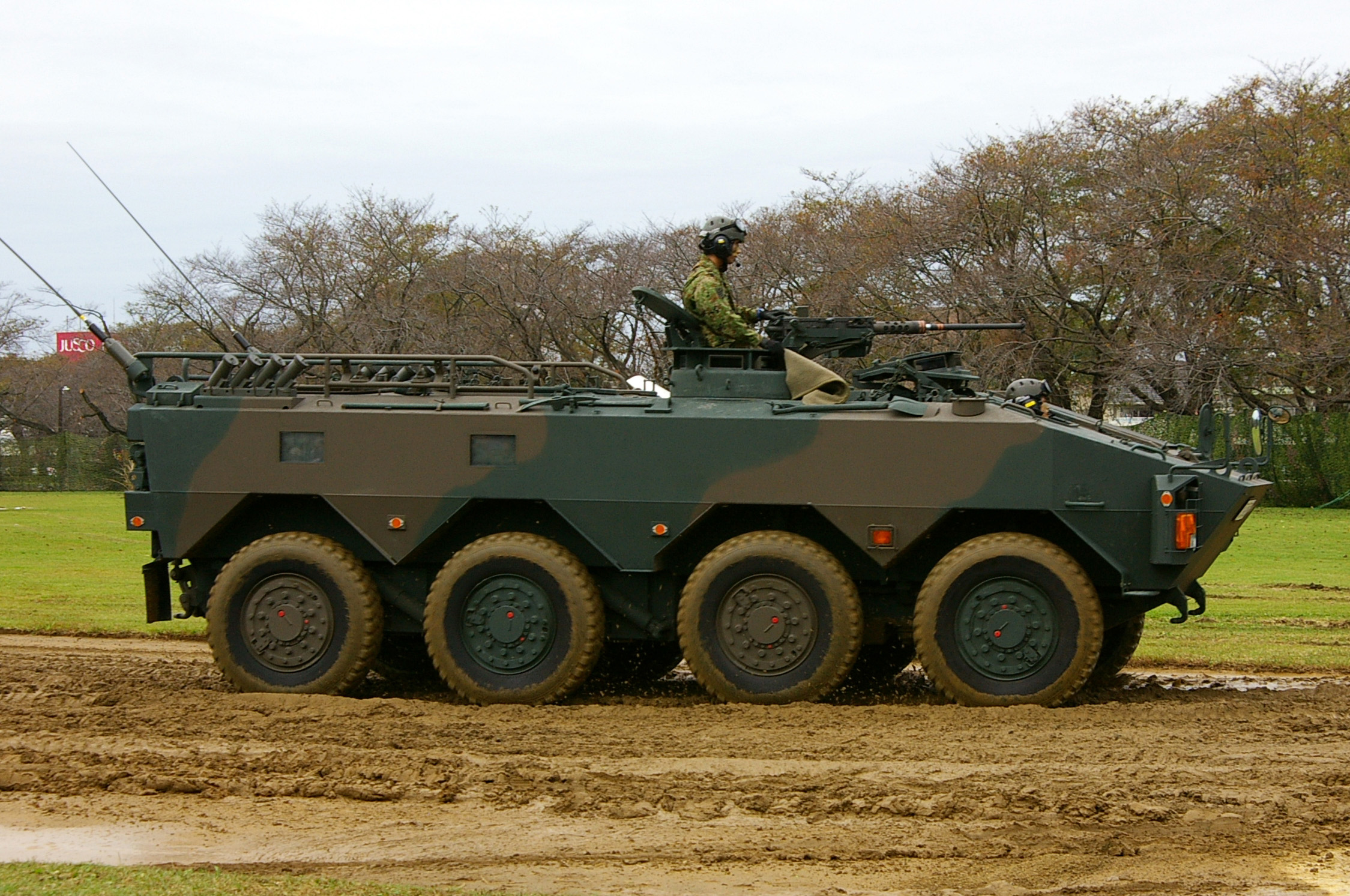 JGSDF Type96 Armored Personnel Carrier,Engineer school unit.Taken by Los688,in Camp Katsuta,Japan,at 25-Oct-2008.PD-self ja:96式装輪装甲車 施設学校・施設教導隊 2008年10月25日、勝田駐屯地で撮影。